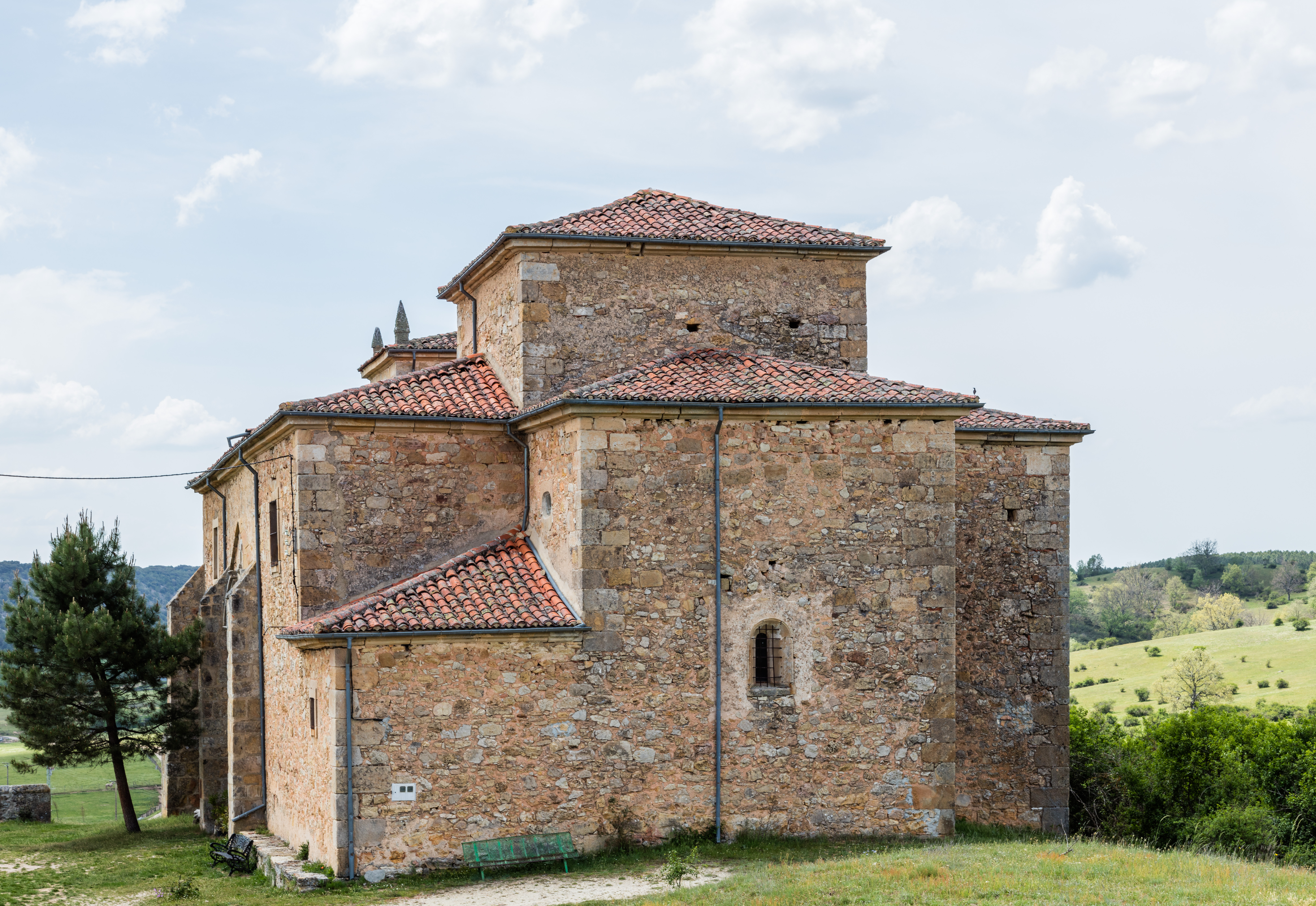 Church of the Natitivy, Vadillo, Soria, Spain